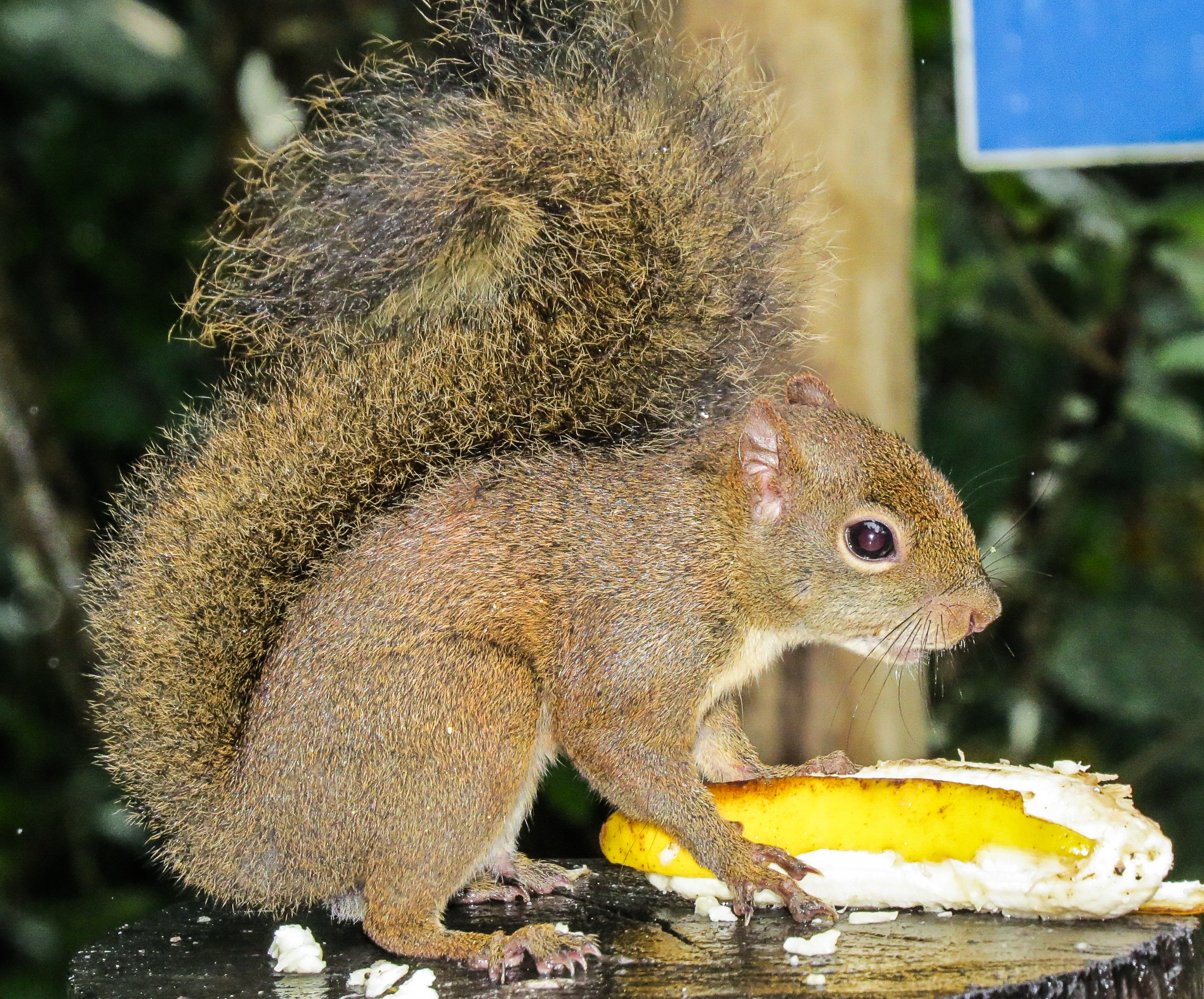 Brazilian squirrel eating banana at Itamambuca Ecoresort, Ubatuba, SP, Brazil